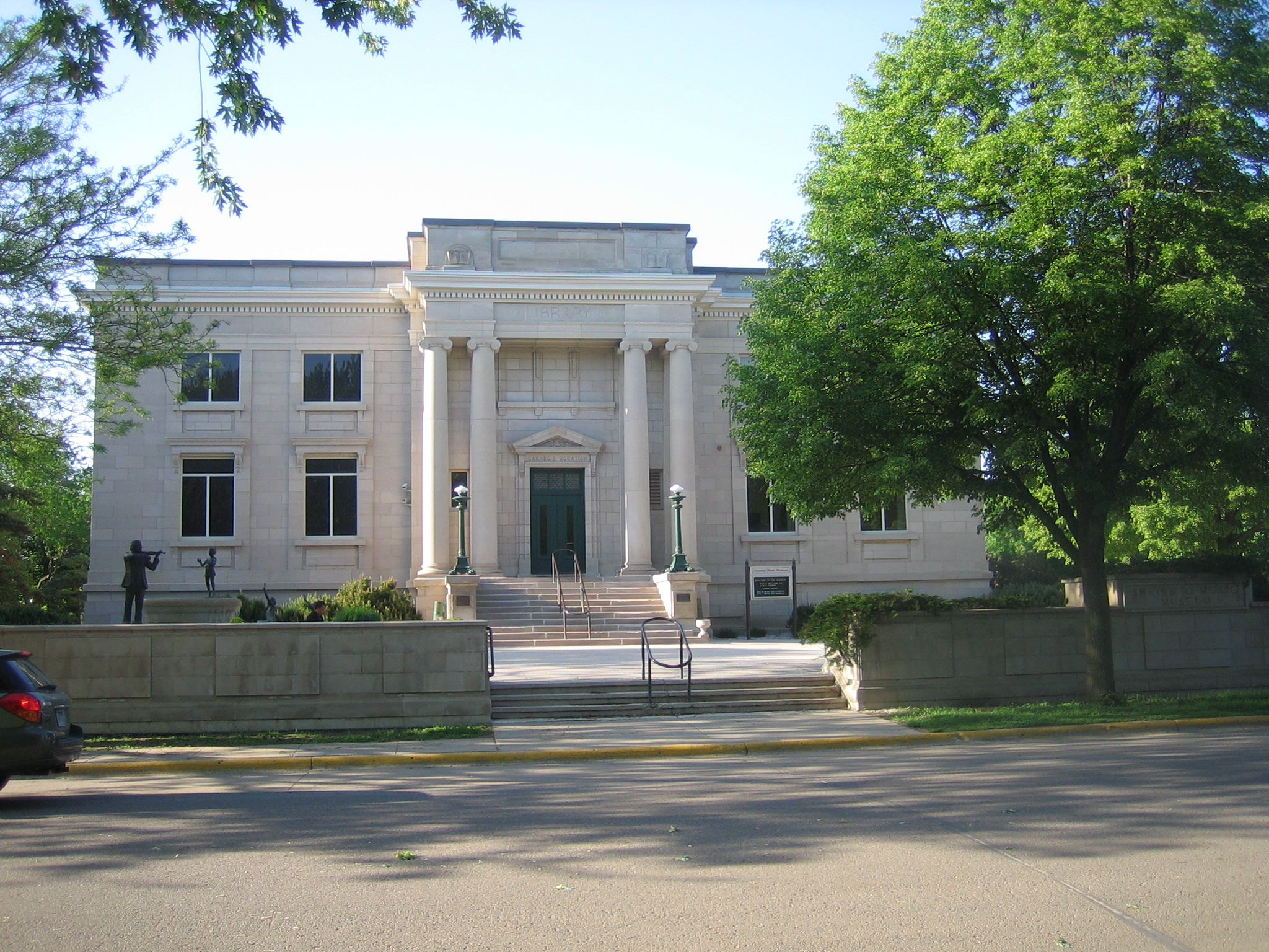 The front of the National Music Museum in Vermillion, South Dakota. Built as a Carnegie library.